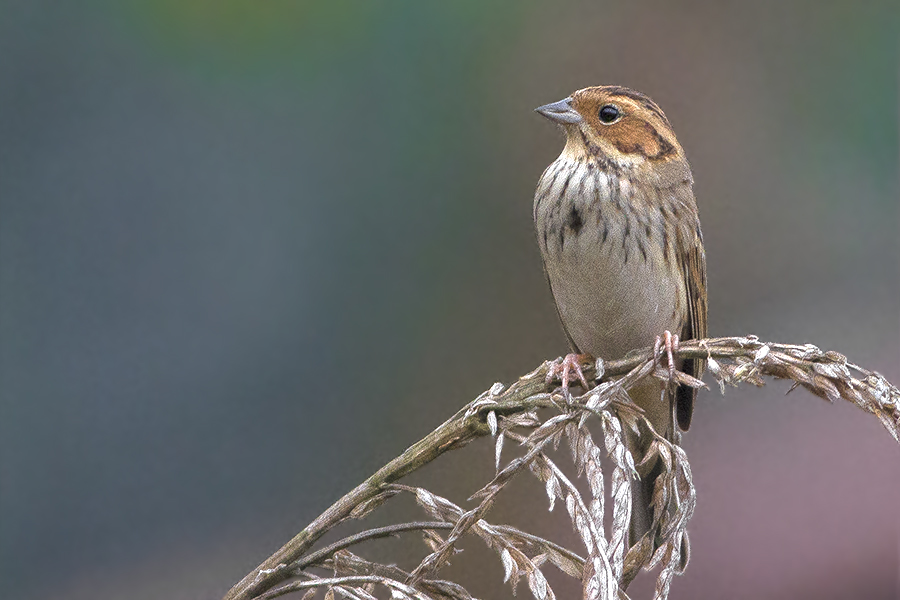 The species Little Bunting had been photographed from Khangchendzonga Biosphere Reserve in West Sikkim, India during the birding and bird photography trip of GoingWild on 15.02.2016